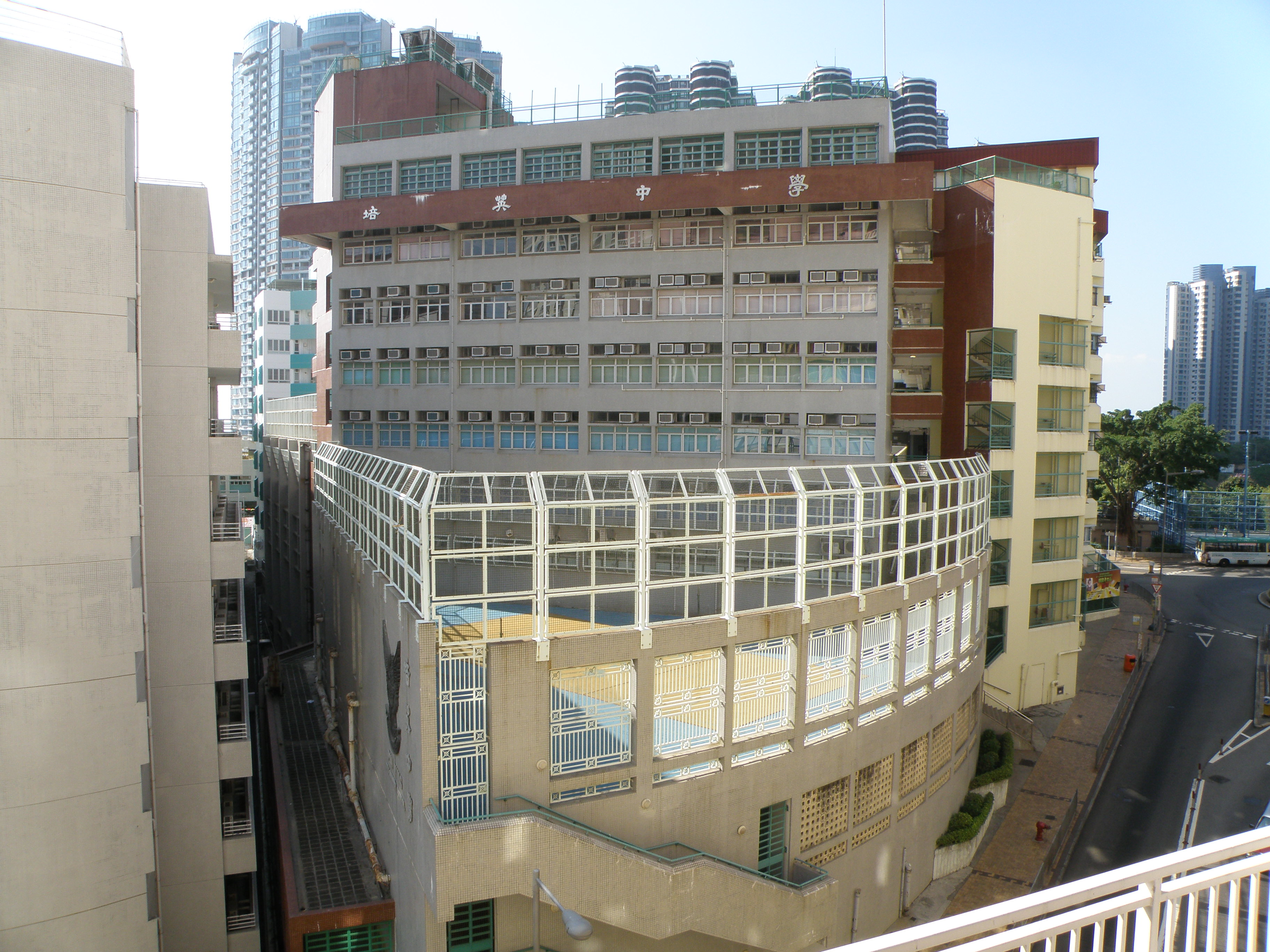 Pui Ying Secondary School in Pok Fu Lam, Hong Kong.